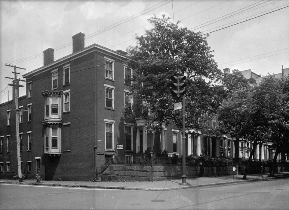 Linden Row, 100-118 East Franklin Street (Richmond, Independent City, Virginia) cropped, HABS VA,44-RICH,50-1 This file comes from the Historic American Buildings Survey (HABS), Historic American Engineering Record (HAER) or Historic American Landscapes Survey (HALS). These are programs of the National Park Service established for the purpose of documenting historic places. Records consist of measured drawings, archival photographs, and written reports. When reusing please credit: Library of Congress, Prints & Photographs Division, VA-247 This tag does not indicate the copyright status of the attached work. A normal copyright tag is still required. See Commons:Licensing for more information. This work is in the public domain in the United States because it is a work prepared by an officer or employee of the United States Government as part of that person’s official duties under the terms of Title 17, Chapter 1, Section 105 of the US Code. See Copyright. Note: This only applies to original works of the Federal Government and not to the work of any individual U.S. state, territory, commonwealth, county, municipality, or any other subdivision. This template also does not apply to postage stamp designs published by the United States Postal Service since 1978. (See § 313.6(C)(1) of Compendium of U.S. Copyright Office Practices). It also does not apply to certain US coins; see The US Mint Terms of Use. This file has been identified as being free of known restrictions under copyright law, including all related and neighboring rights.